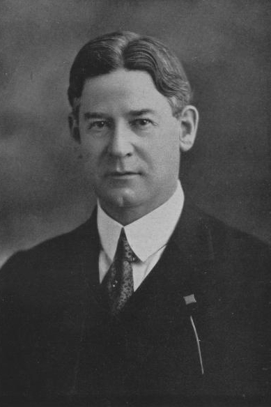 Walter Riggs, president of Clemson Agricultural College (1910-1922) scanned from the 1922 Taps, the annual of Clemson College. This work is in the public domain in the United States because it was published (or registered with the U.S. Copyright Office) before January 1, 1923. Public domain works must be out of copyright in both the United States and in the source country of the work in order to be hosted on the Commons. If the work is not a U.S. work, the file must have an additional copyright tag indicating the copyright status in the source country. PD-1923 Public domain in the United States //commons.wikimedia.org/wiki/File:Walter_Riggs.JPG